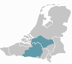 Map of the distribution of the dialect Brabantian in the Low countries.